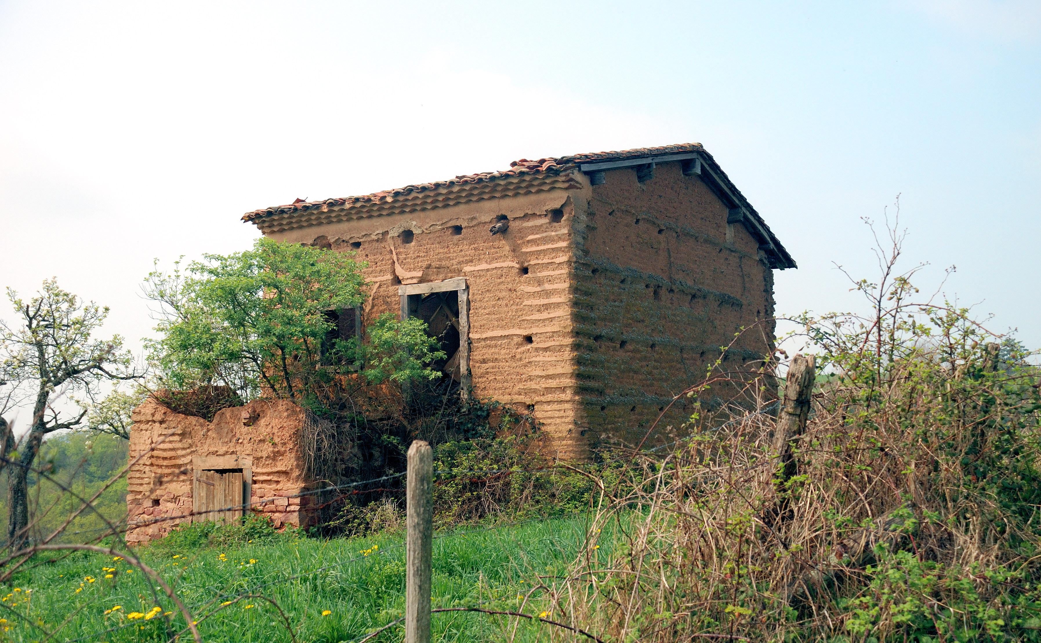 House made with pisé (a kind of mud material) in the hamlet of Loure (commune of Sermentizon, (Puy-de-Dôme, France)..